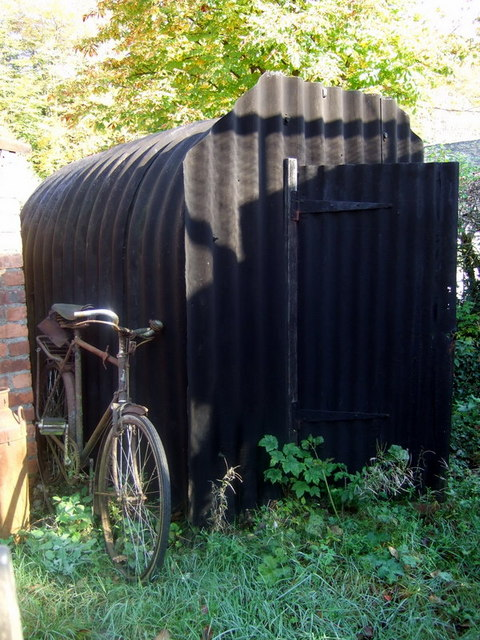 Anderson shelter at St Fagans, Cardiff, Wales